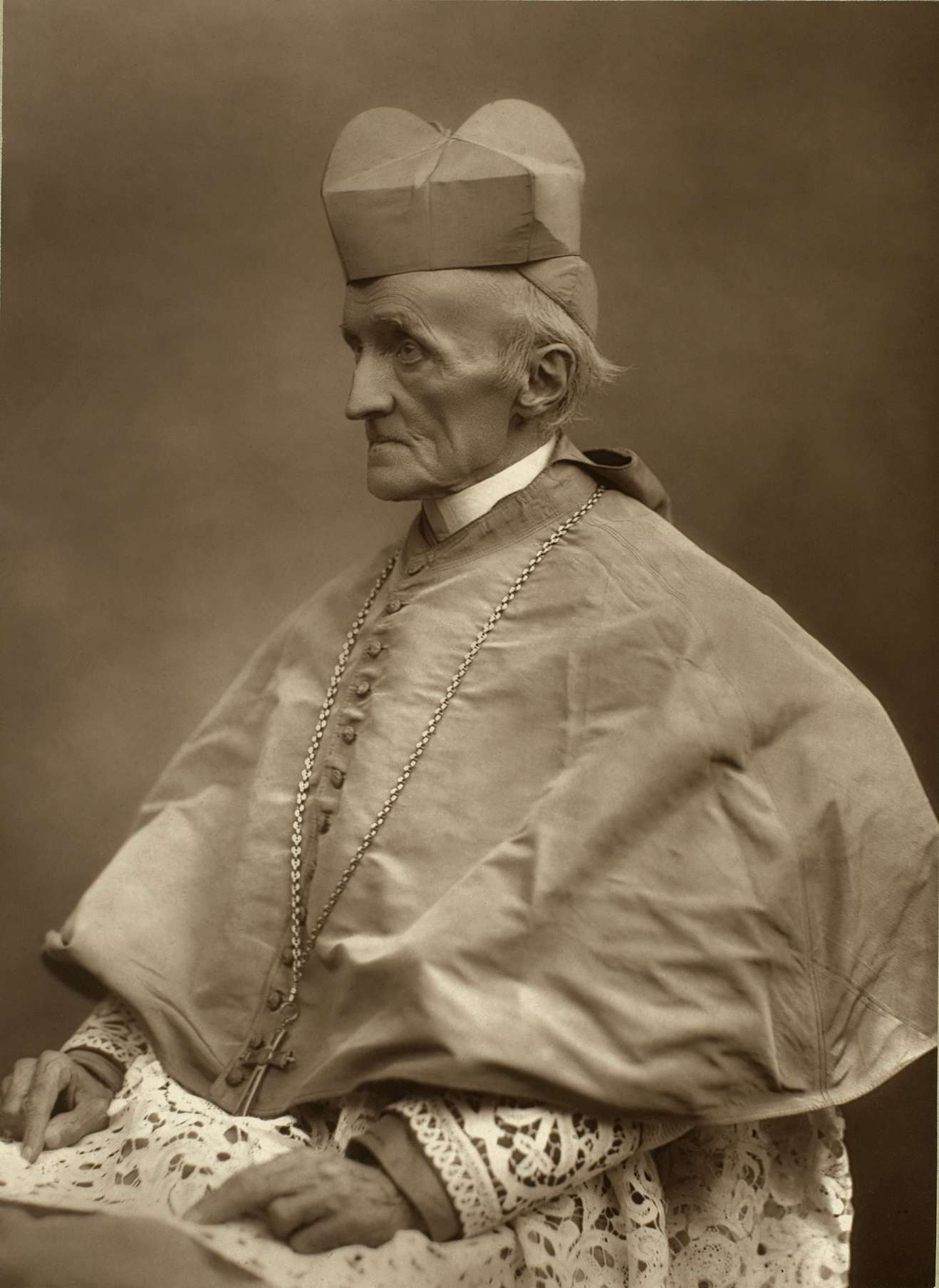 Portrait of Henry Edward Manning (1808-1892)